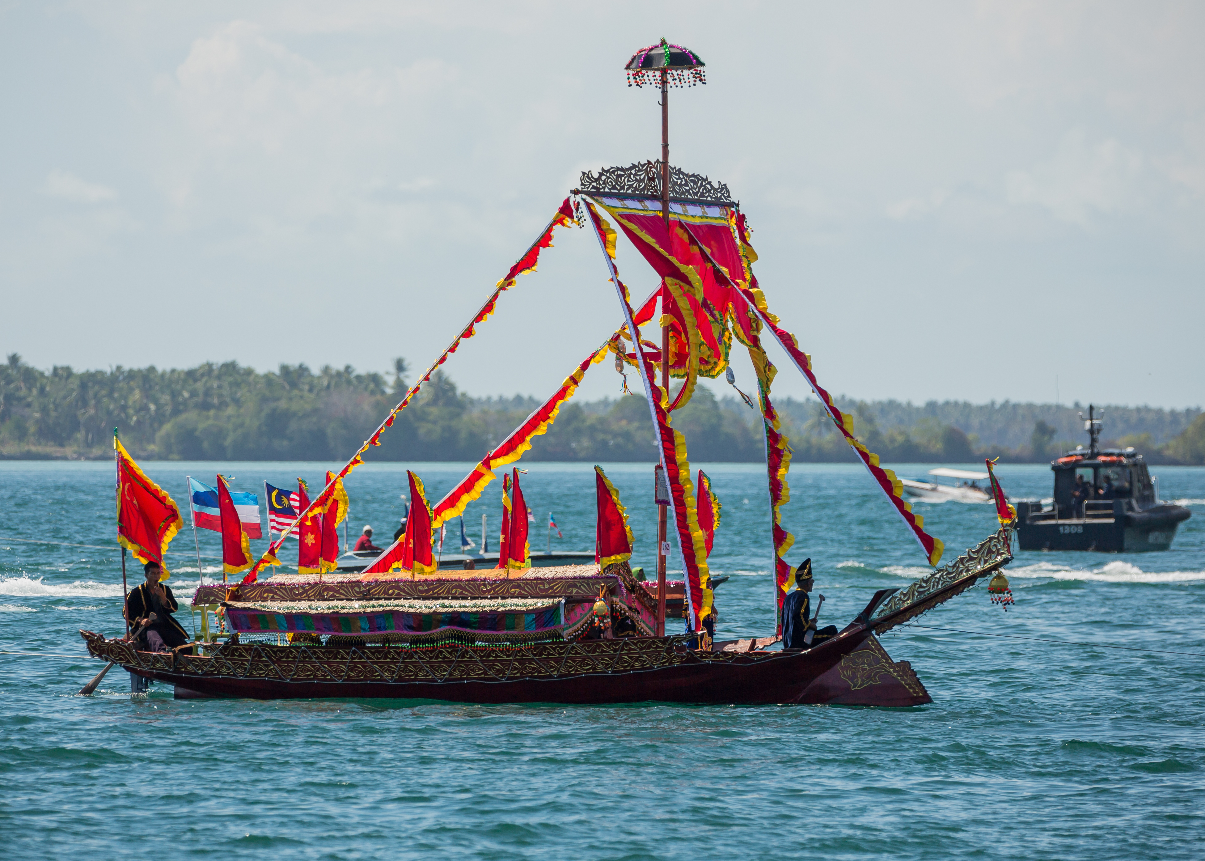 Semporna, Sabah: A lepa - the tradtional boat of the Bajau people - during the Regatta Lepa event 2015